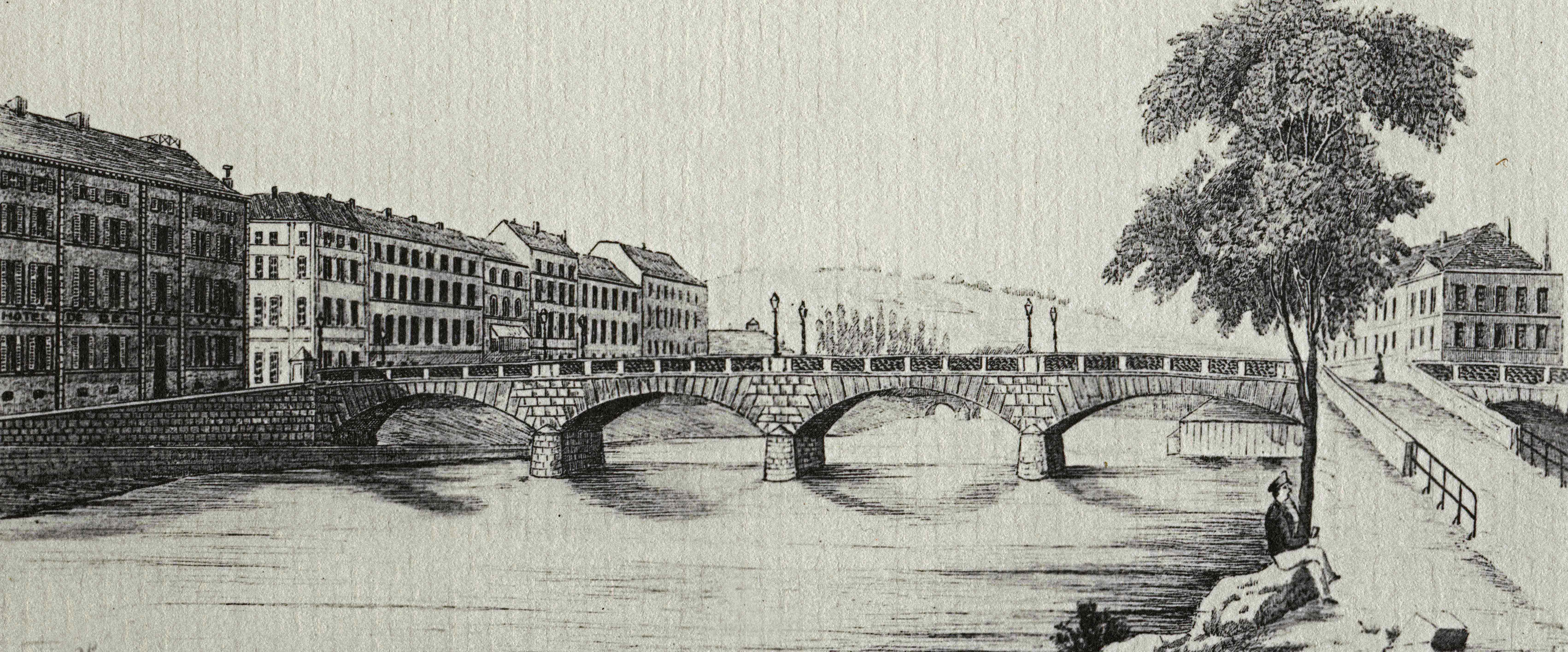 Pont de la Boverie (Boverie Bridge), image from 1845